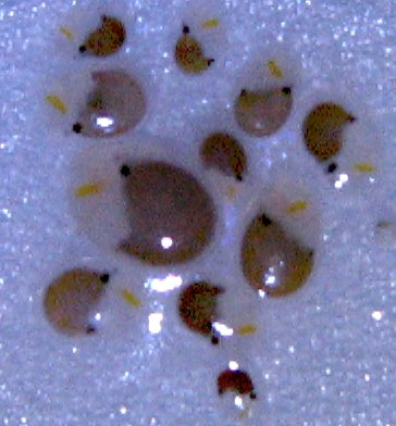 Vargula hilgendorfii Futtsu city, Chiba, Japan.